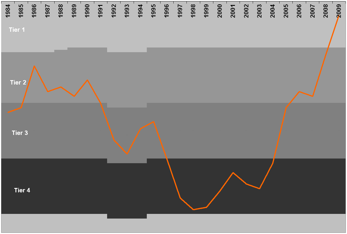 Graph showing the progress of Hull City A.F.C. through the English League system. The bumps in the League Tier lines show when the number of clubs in the different leagues were changed.